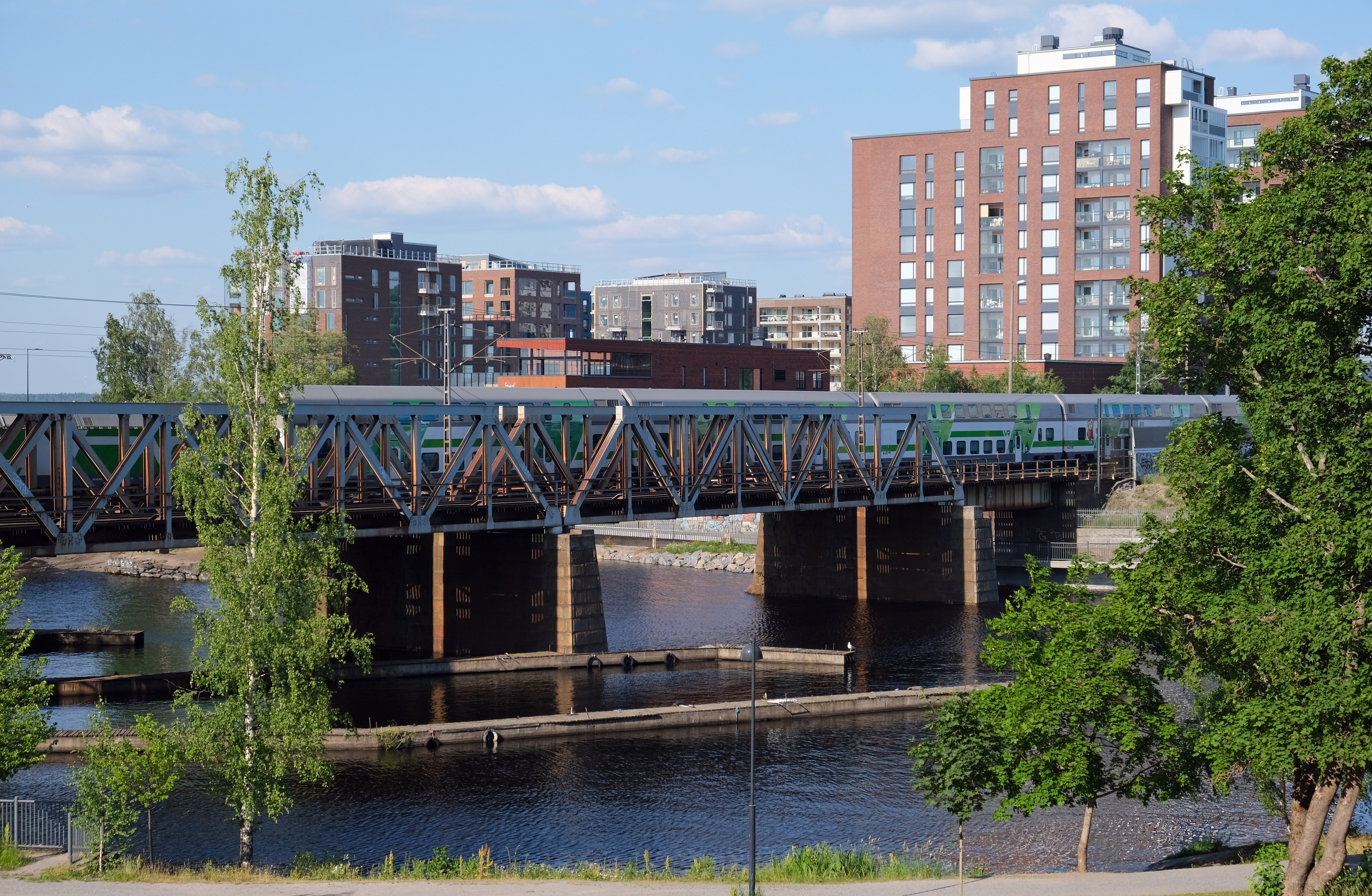 Tammerkoski railway bridge.